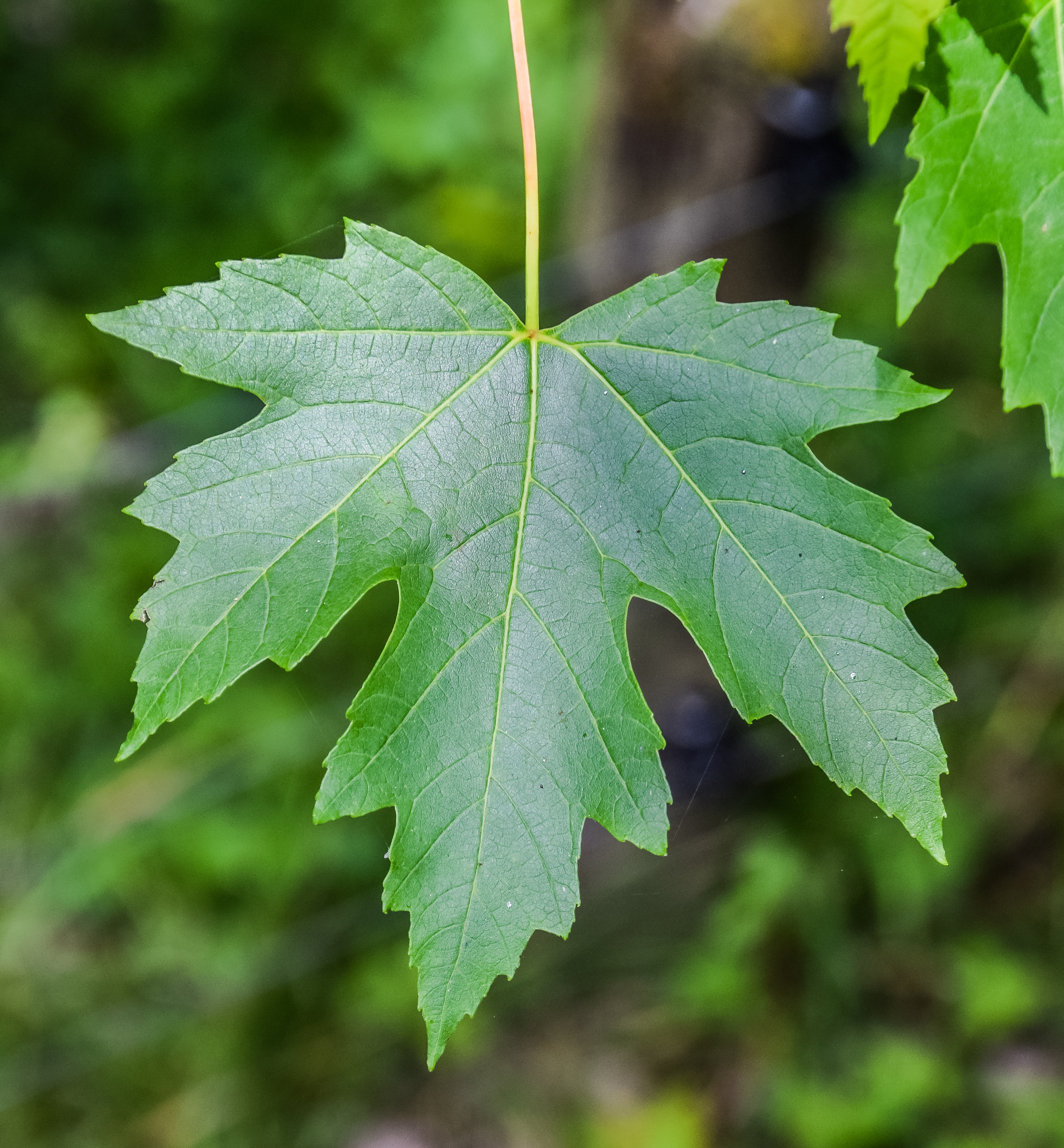 Acer saccharinum in Eastwoodhill Arboretum, Gisborne Region, New Zealand